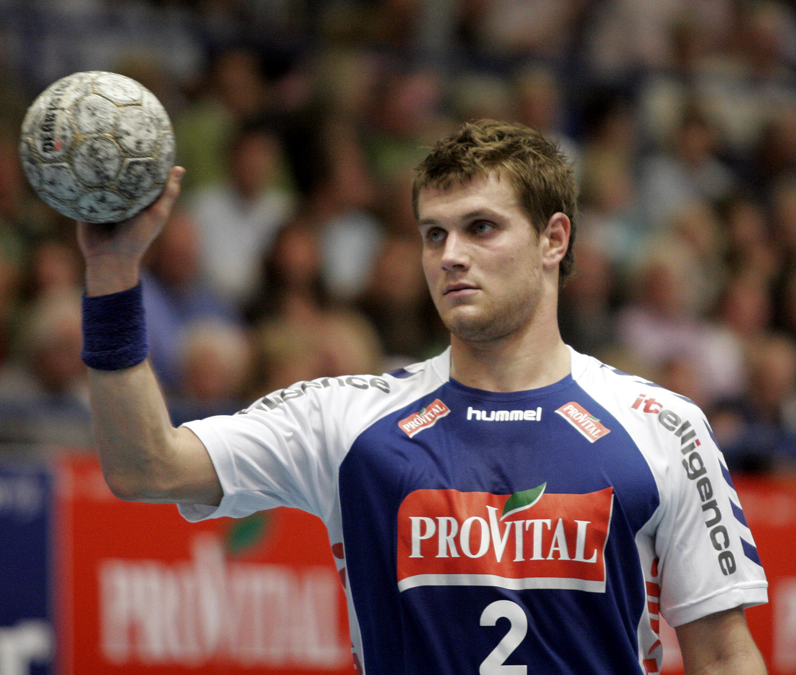 Michael Kraus, handball player of TBV Lemgo (Germany), in the Lipperlandhalle during the match TBV Lemgo vers. Wilhelmshavener HV on October 13th, 2007